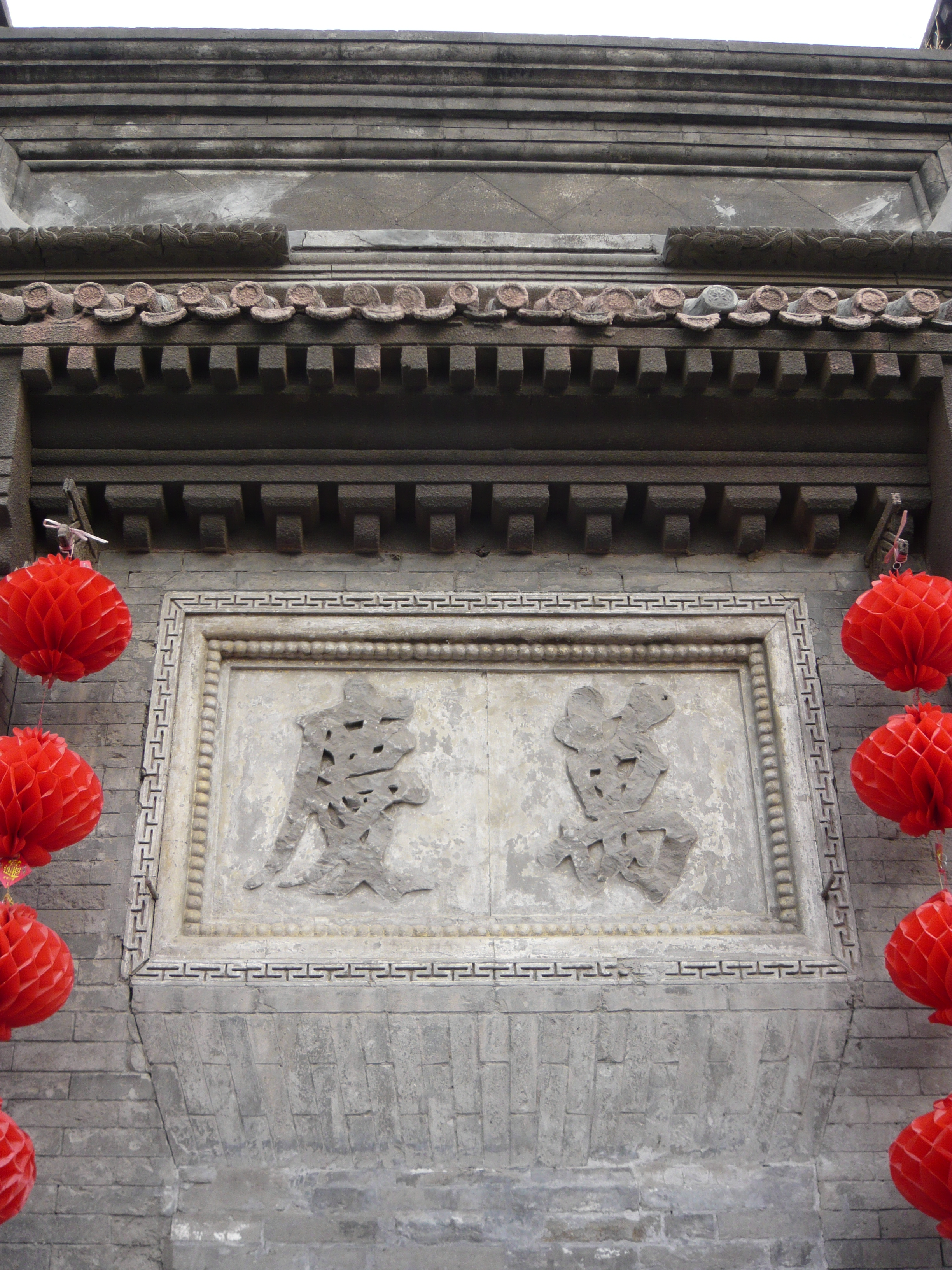 A stone wall with hanging red lanterns inside a street in Beijing